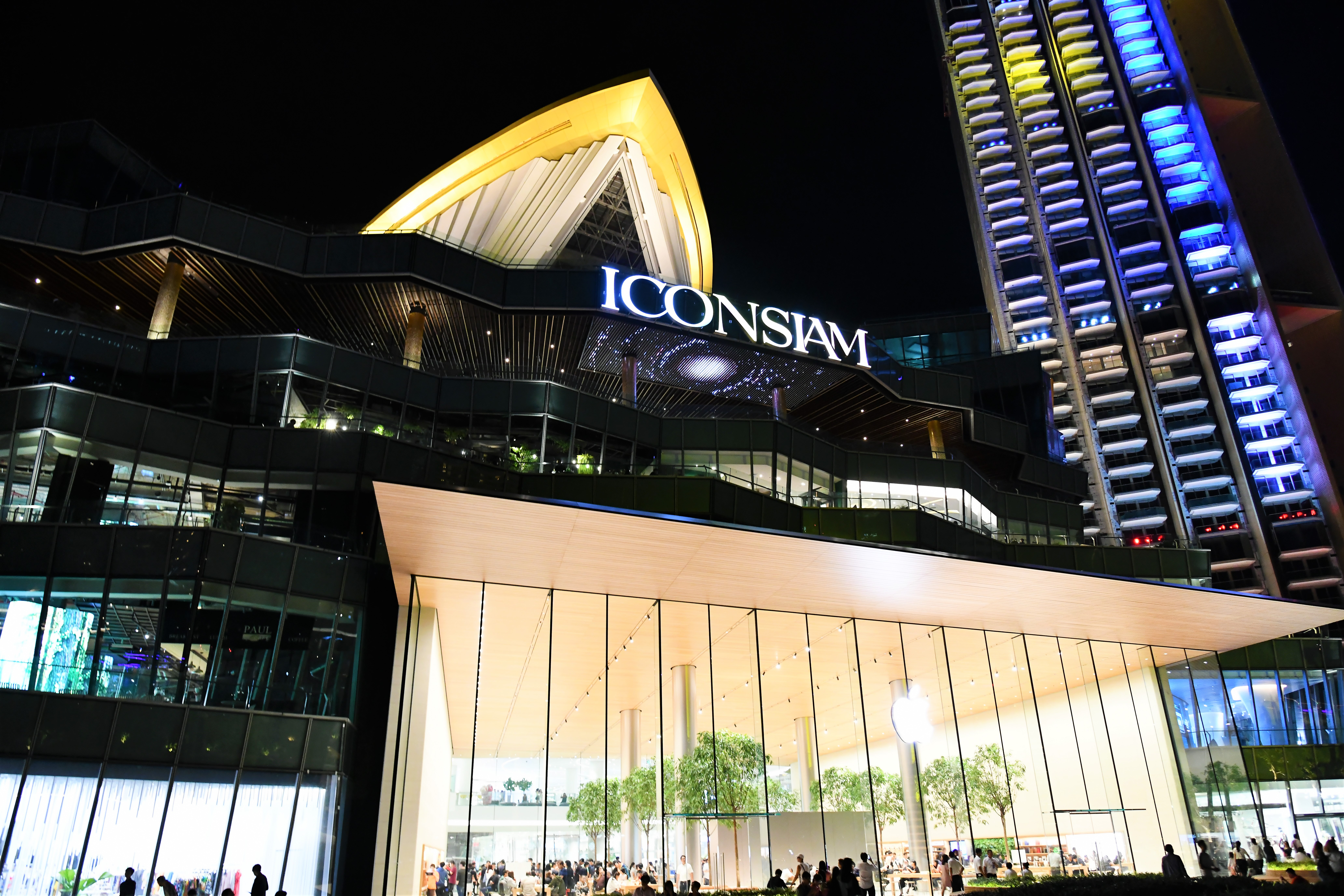 ไอคอนสยาม เปิดอย่างเป็นทางการ Grand Openning Iconsiam of Thailand